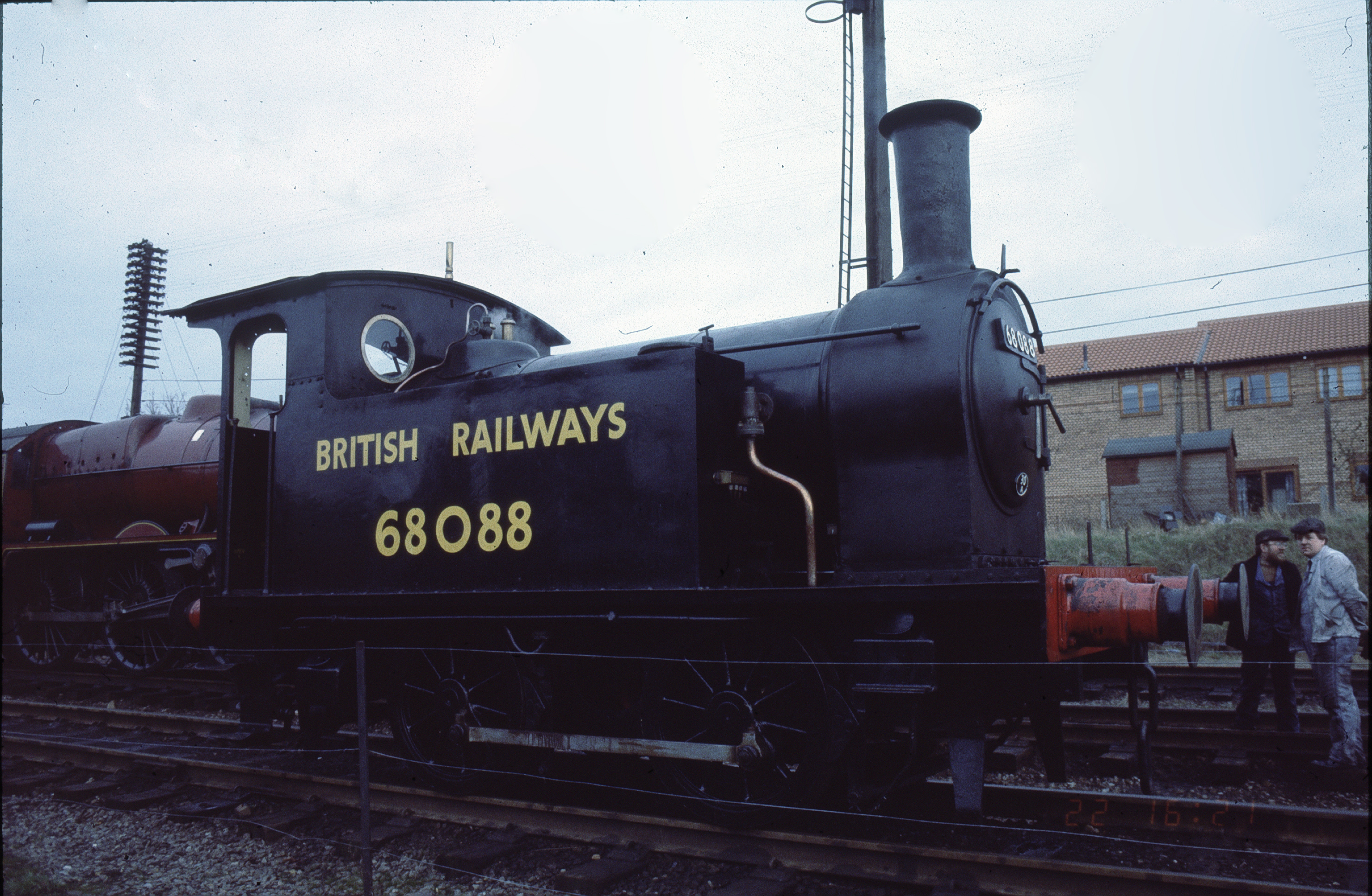 On the Great Central railway at Loughborough